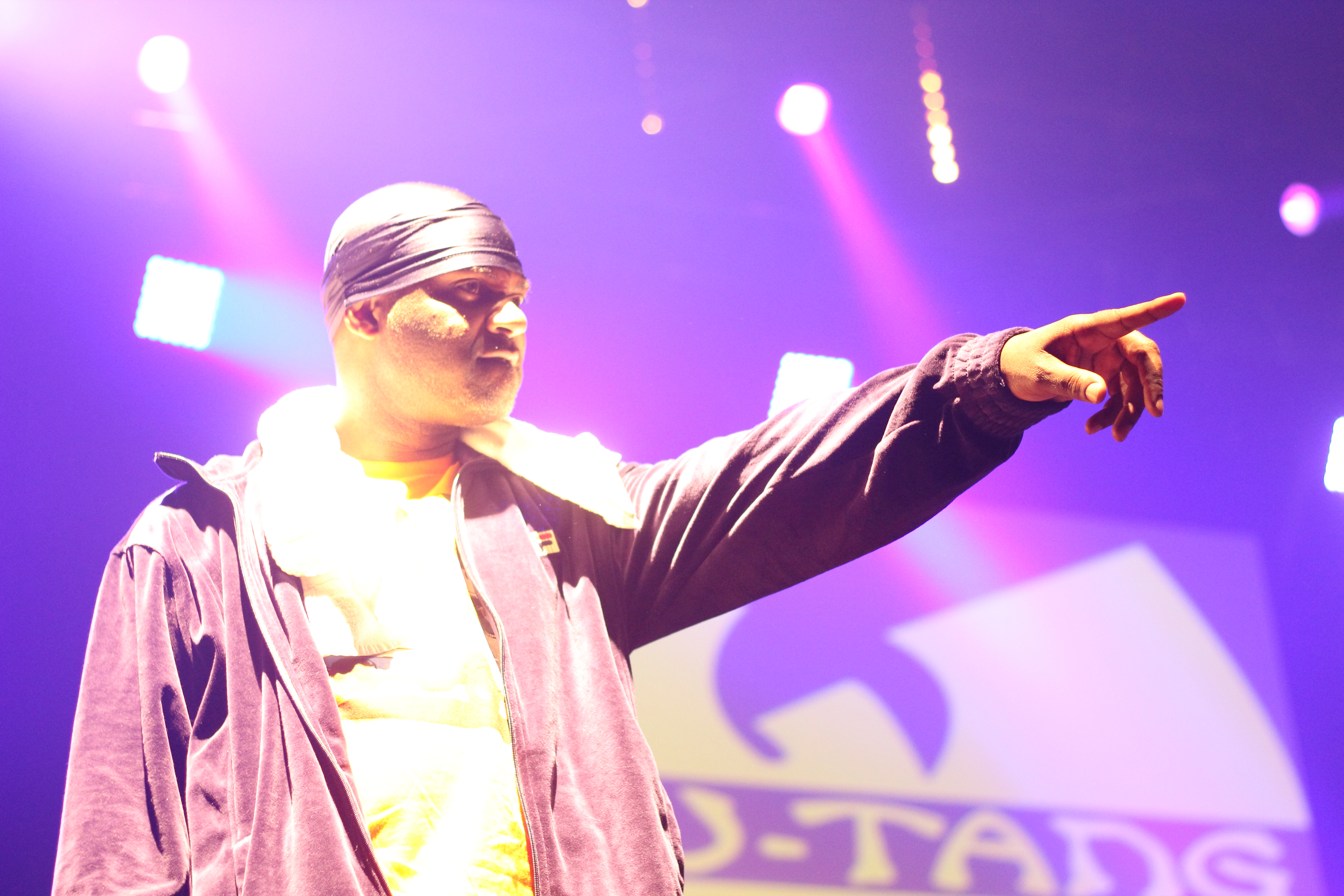 Masta Killa performing in Paris (2013)